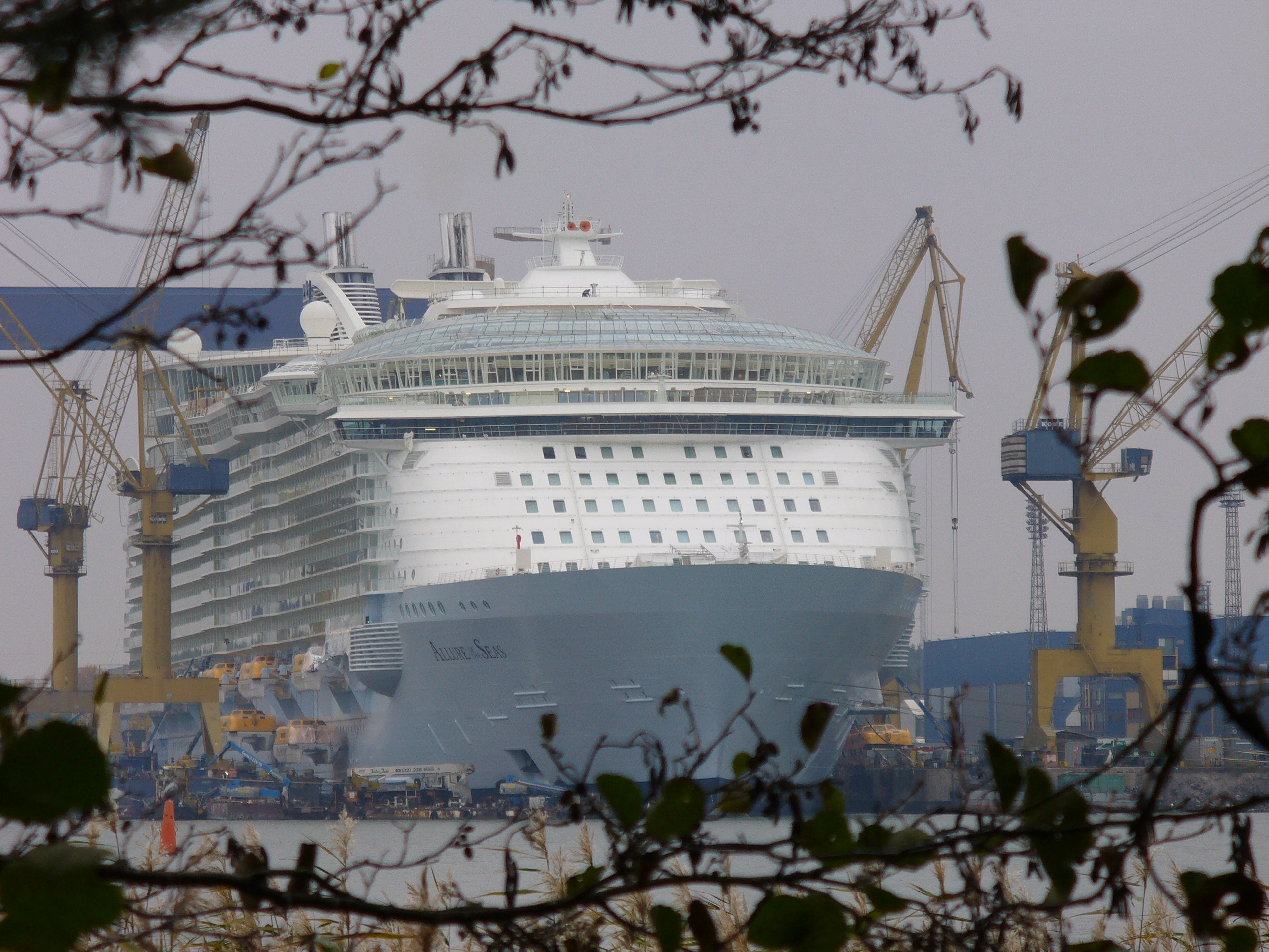 M/S Allure of the Seas at STX Europe Perno Shipyard in Turku, Finland. Portrayed from Raisionlahti (Raisio Bay).